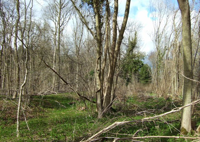 Bedford Purlieus The ancient woodland is a National Nature Reserve managed by the Forestry Commission.